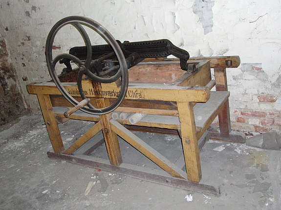 Box mangle. Found in Oslo, Norway Produced by "O. Jakobsons Maskinværksted Chr.a" (O. Jakobsons Workshop in Christiania (Oslo))